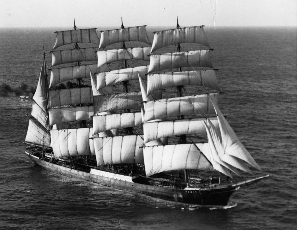 The sailing ship Pamir under Finnish flag (1931-1941, 1948-1950?) in full sail.